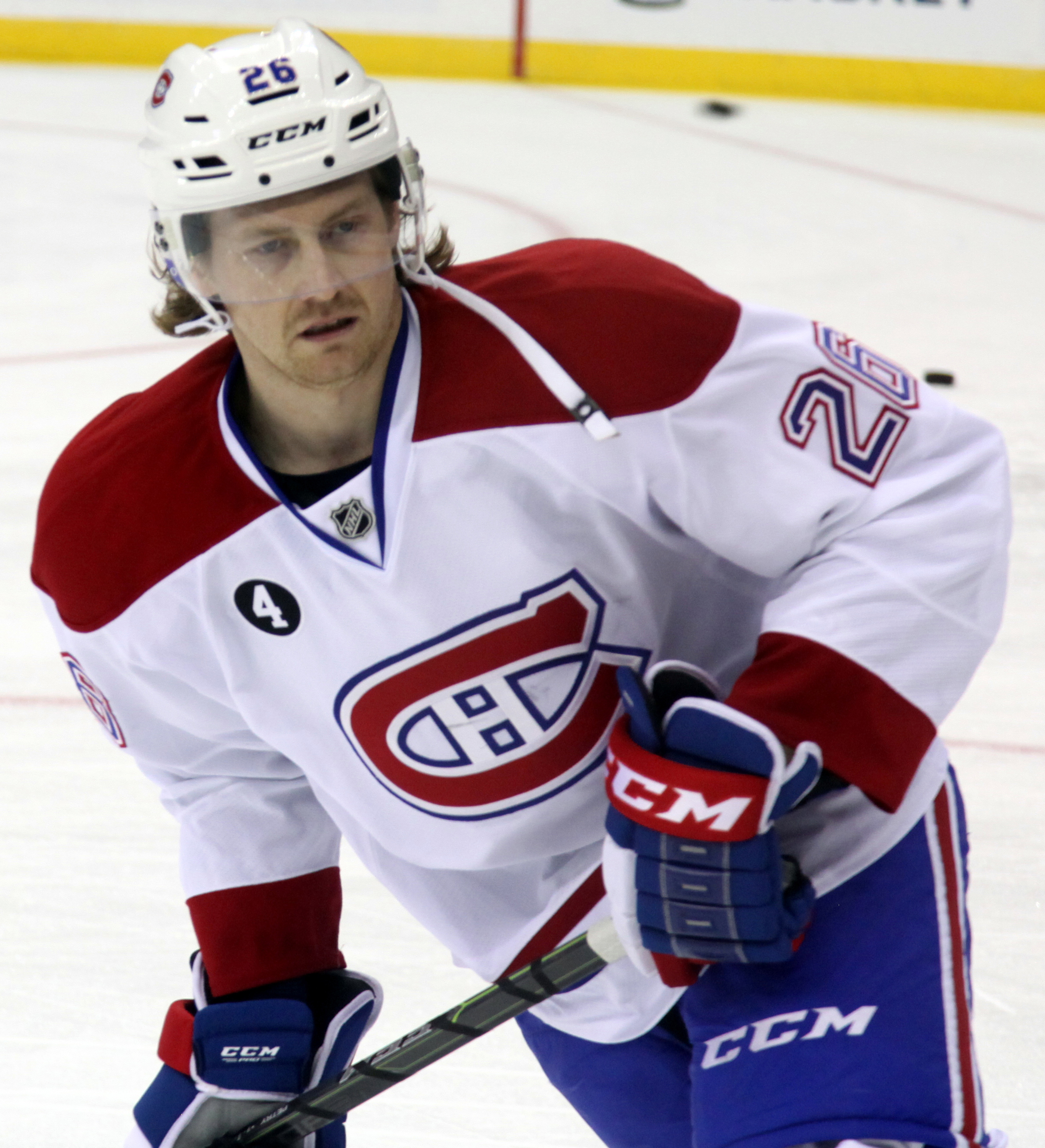 Jeff Petry in April 2015.